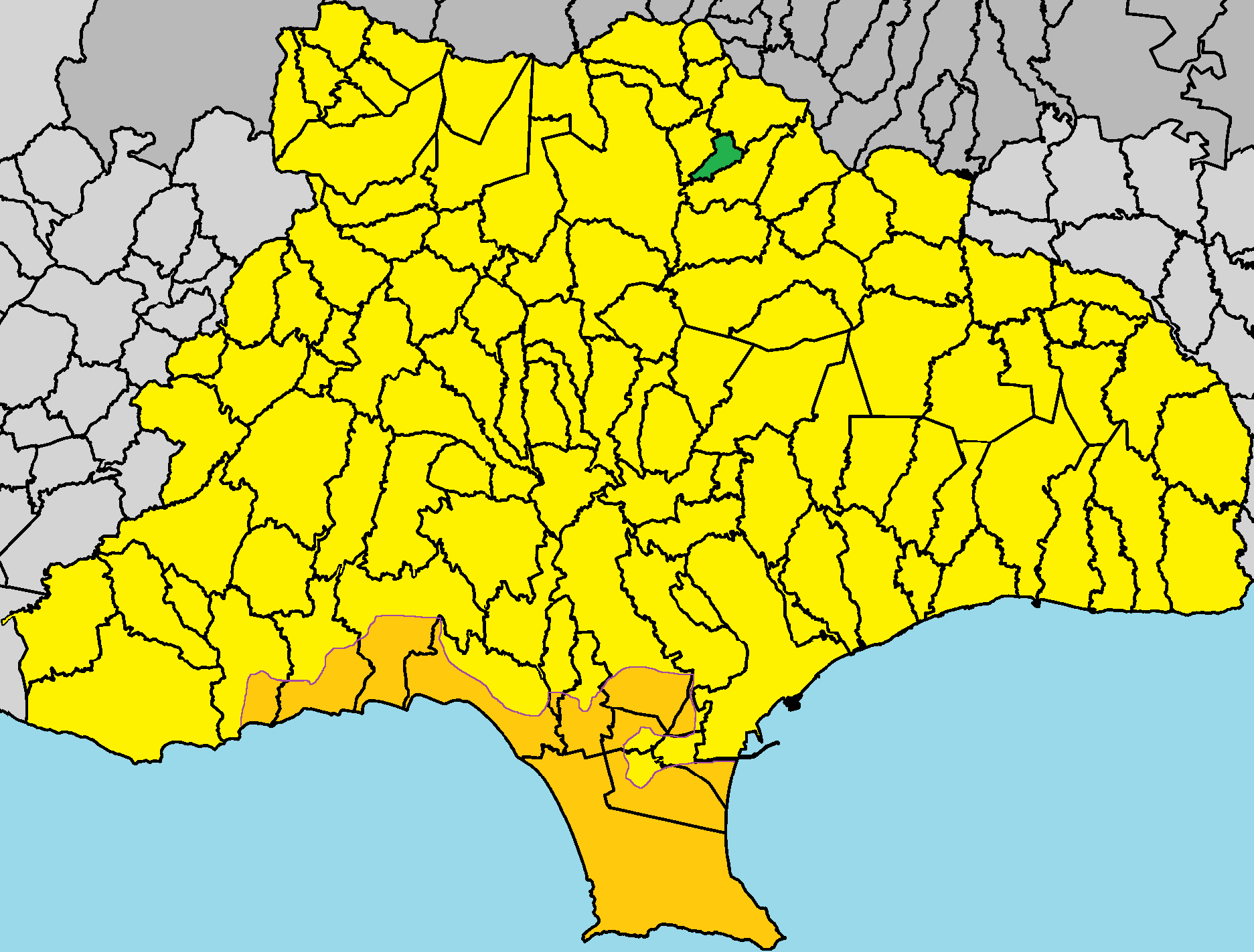 Kato Mylos in Limassol District.